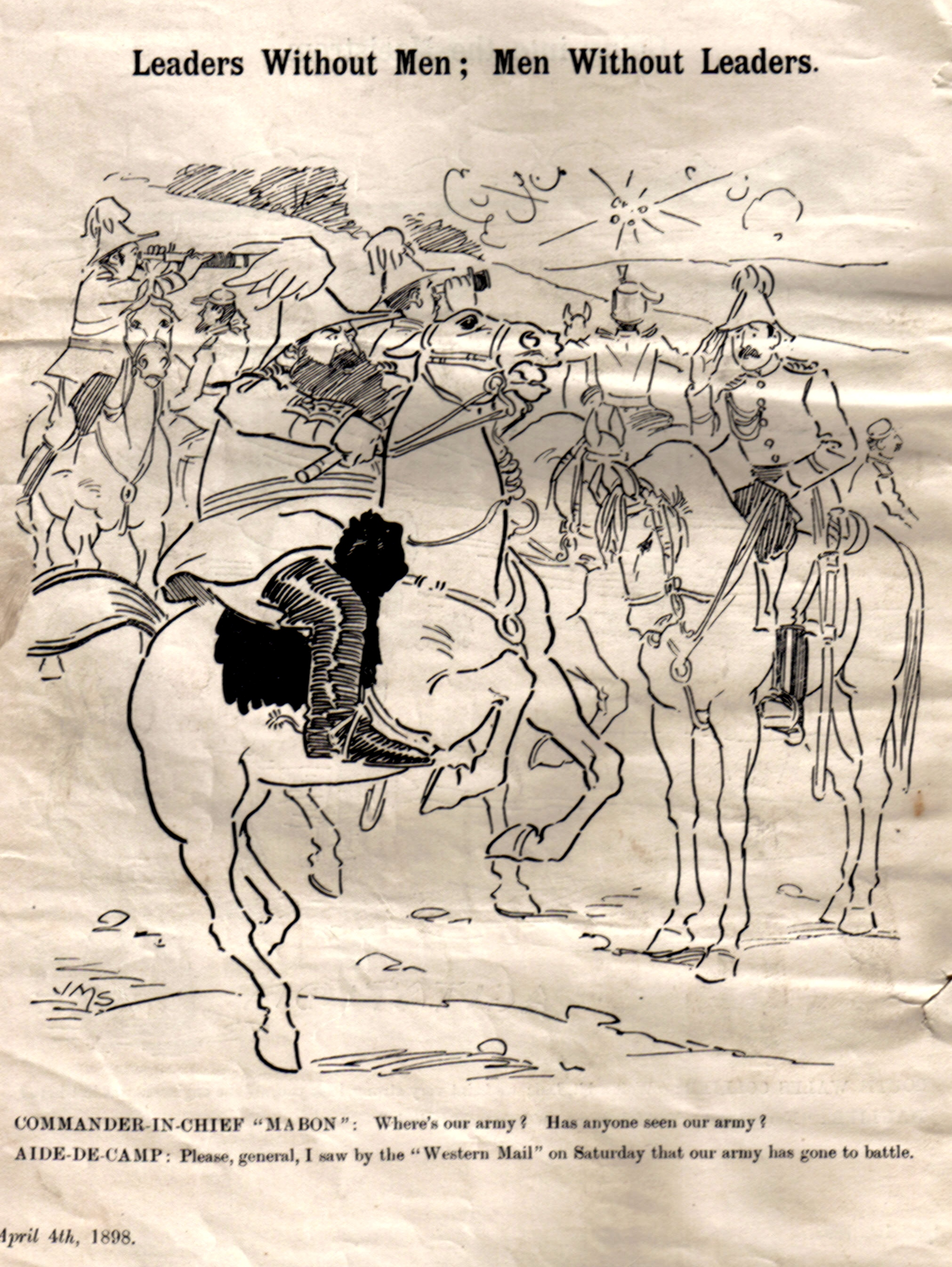 Cartoon originally published in the Western Mail (Cardiff), 1898. Art and commentry by Joseph Morewood Staniforth. Coal Strike